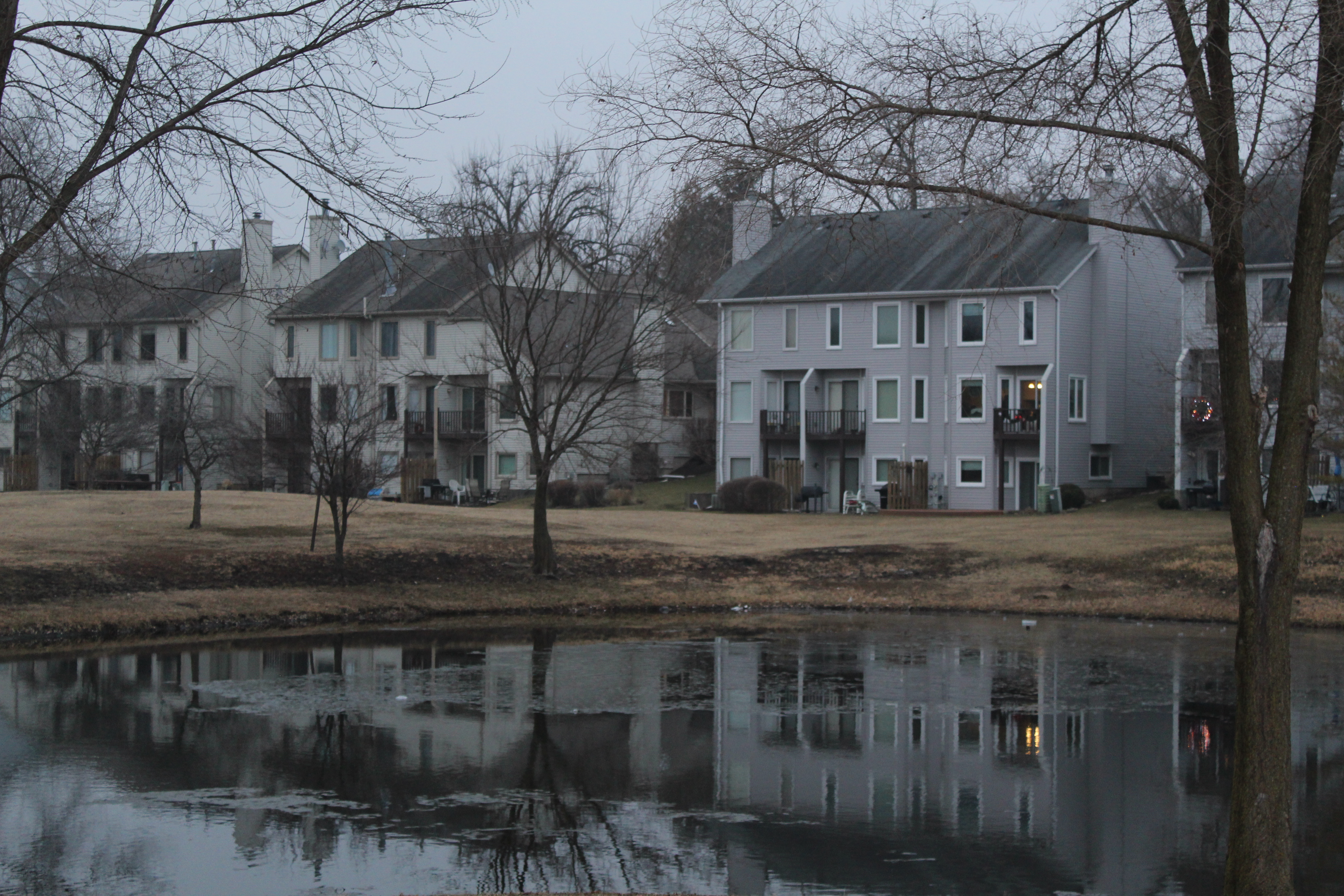 Townhomes near Foxmoor Park in Fox River Grove, Illinois. Taken December 2019.